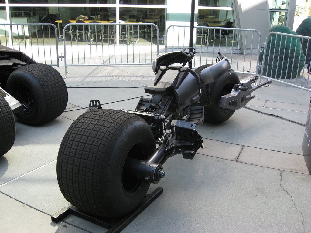 The Batpod at Hollywood, California